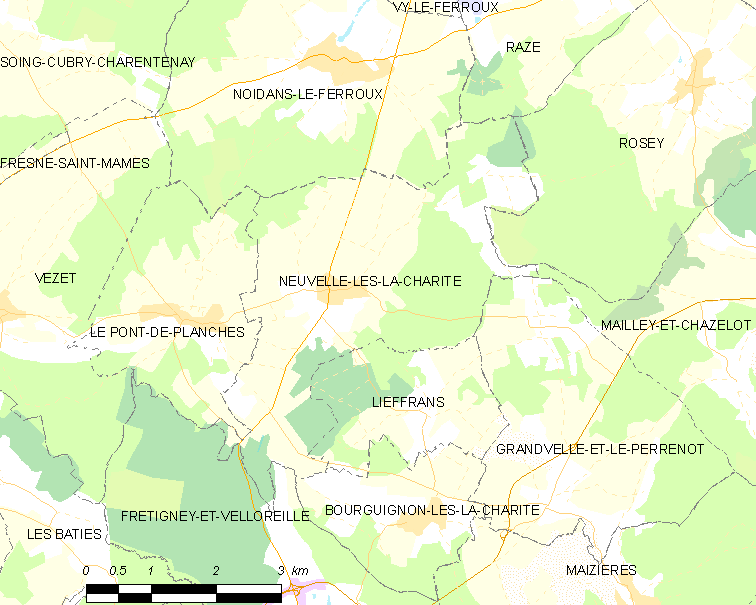 Map of French municipality